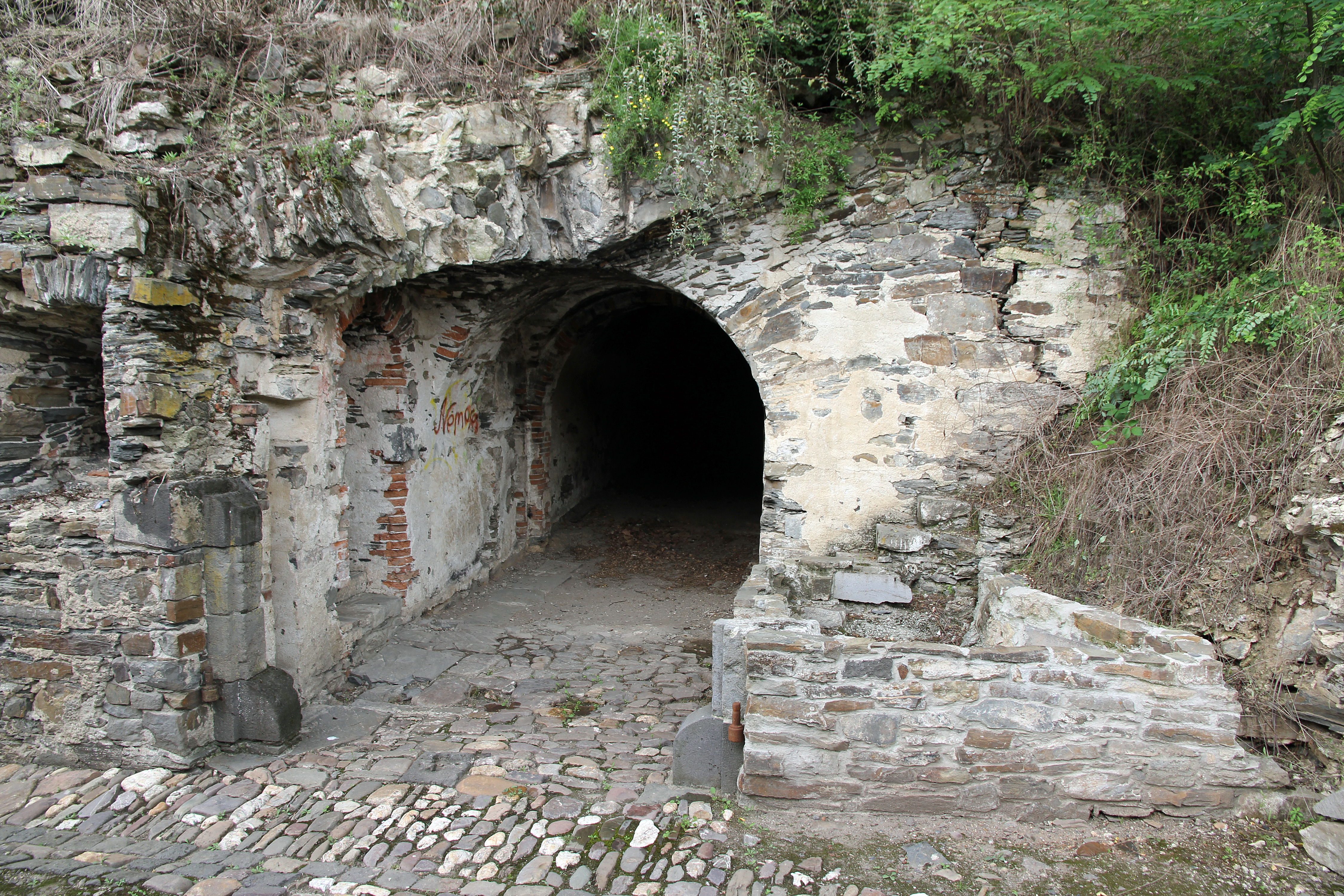 Feste Kaiser Franz in Koblenz